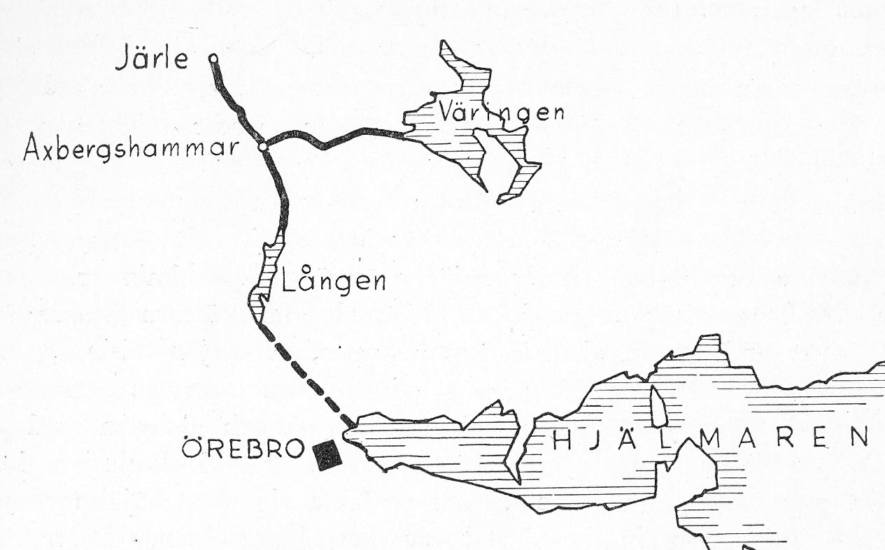 Järle canal, Sweden